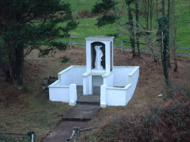 St. Senan's Well. St. Senan's Well, Leadmore, Kilrush, Co. Clare.